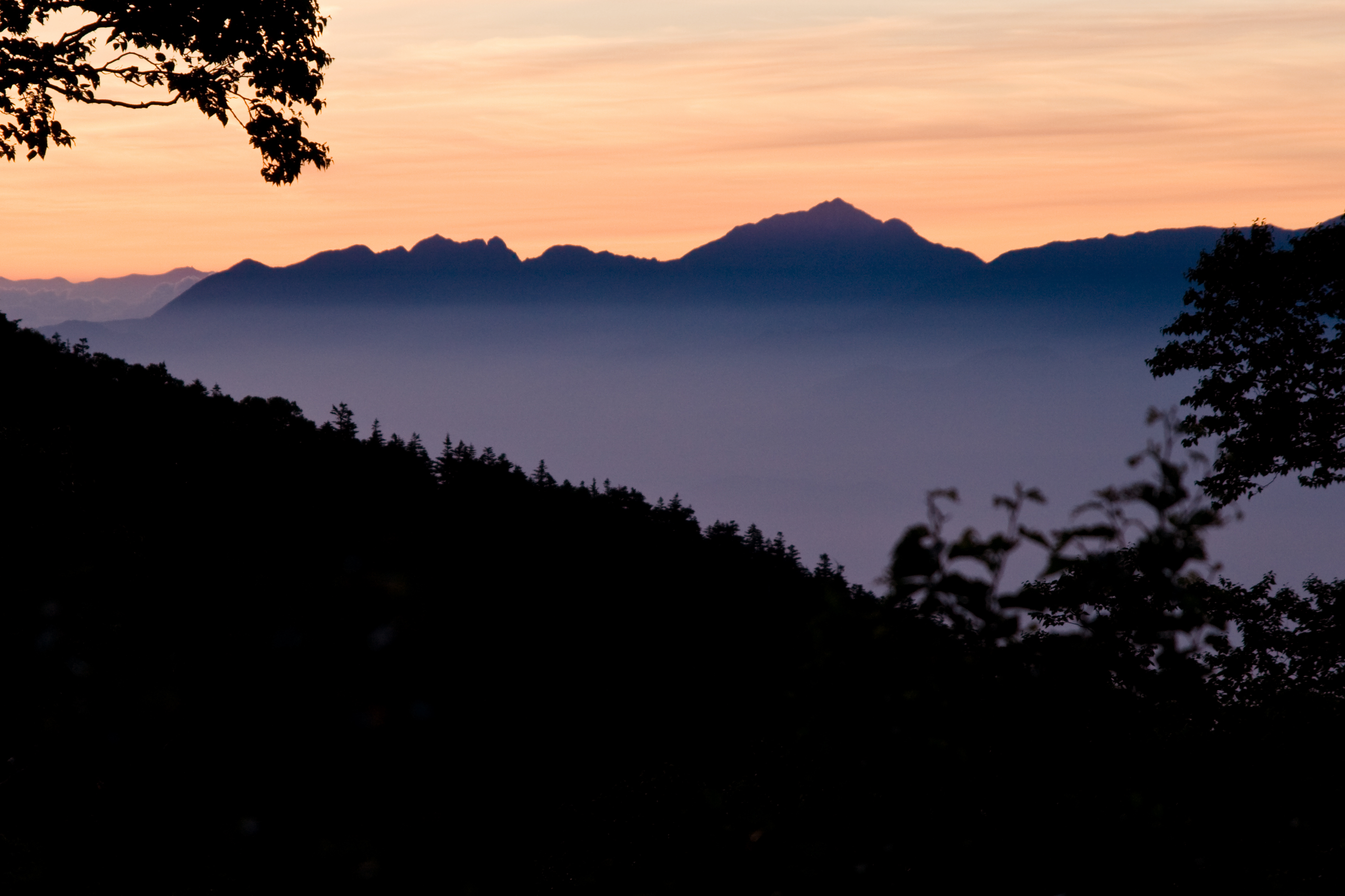 Mt.Kaikomagataké (Kaikoma-ga-také 甲斐駒ヶ岳) as seen from Mt.Utsugidake, Nagano, Japan.